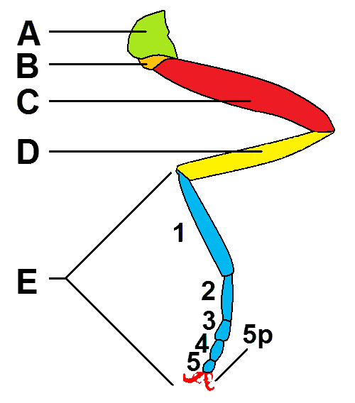 Leg of a butterfly colored.